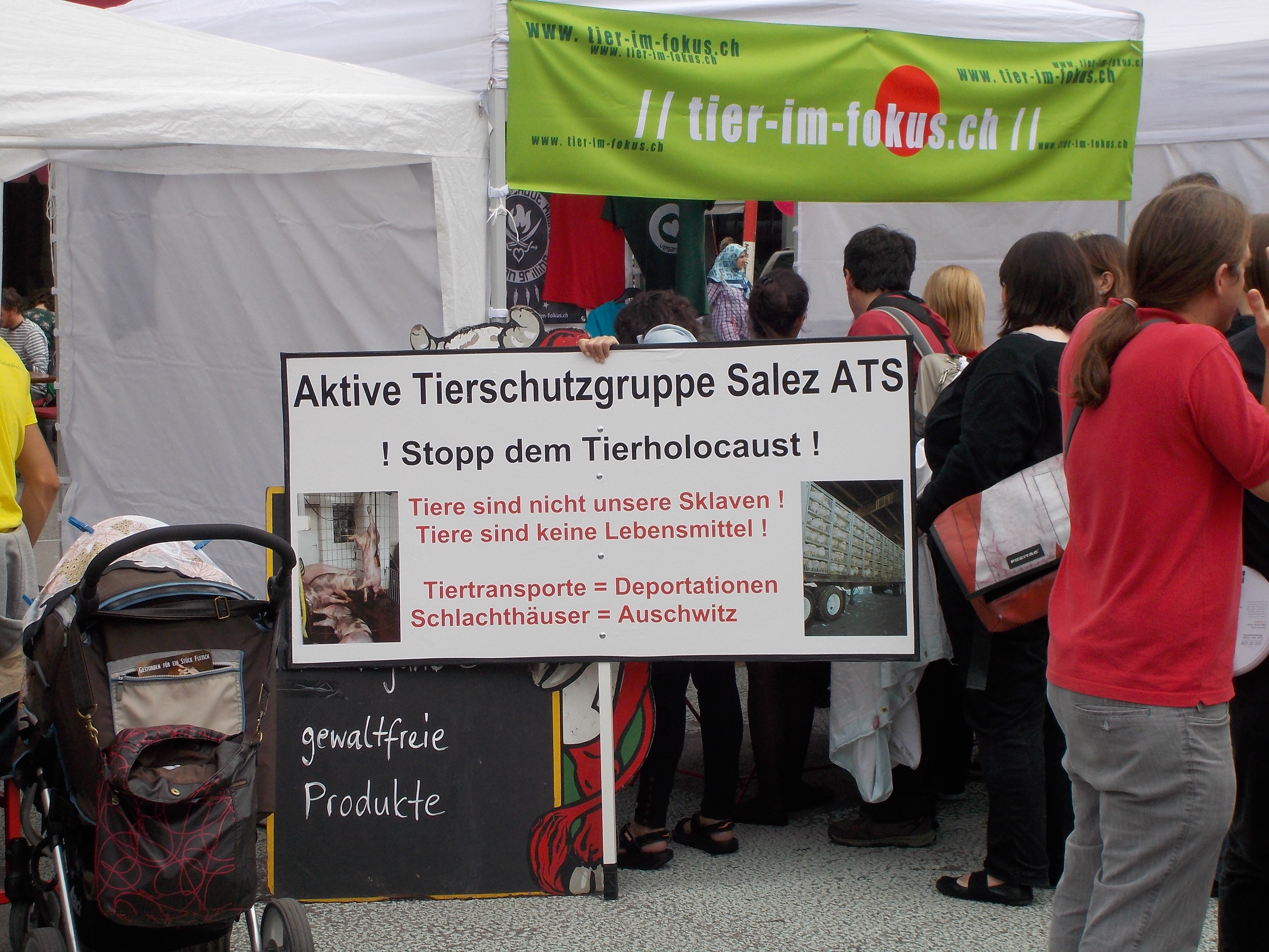 An animal welfare group compares the holocaust with the use of animals during a demonstration in 2014 in Bern.